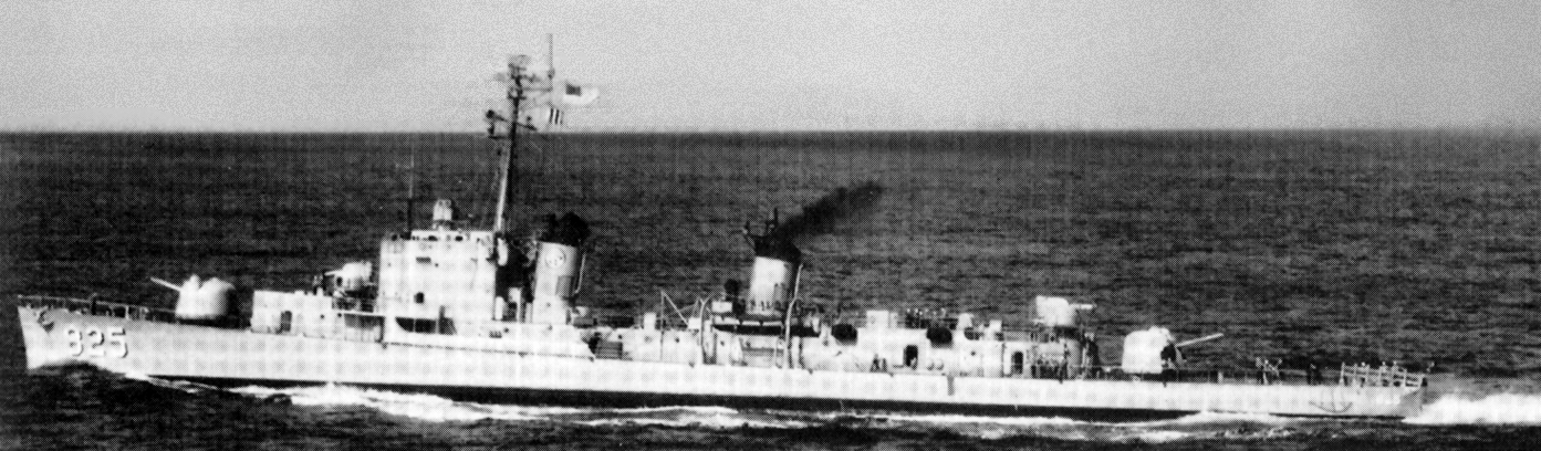 The U.S. Navy Gearing-class destroyer USS Carpenter (DDE-825) in 1957. Carpenter was commissioned in 1949 as a specialised ASW-destroyer, armed with only 7.6 cm/L50 guns and RUR-4 "Weapon Alpha" anti-submarine rockets. Also, the bridge was built much higher compared to the standard Gearing-class design. Later, as shown in this photo, Carpenter received 7,6 cm/L70 turrets.